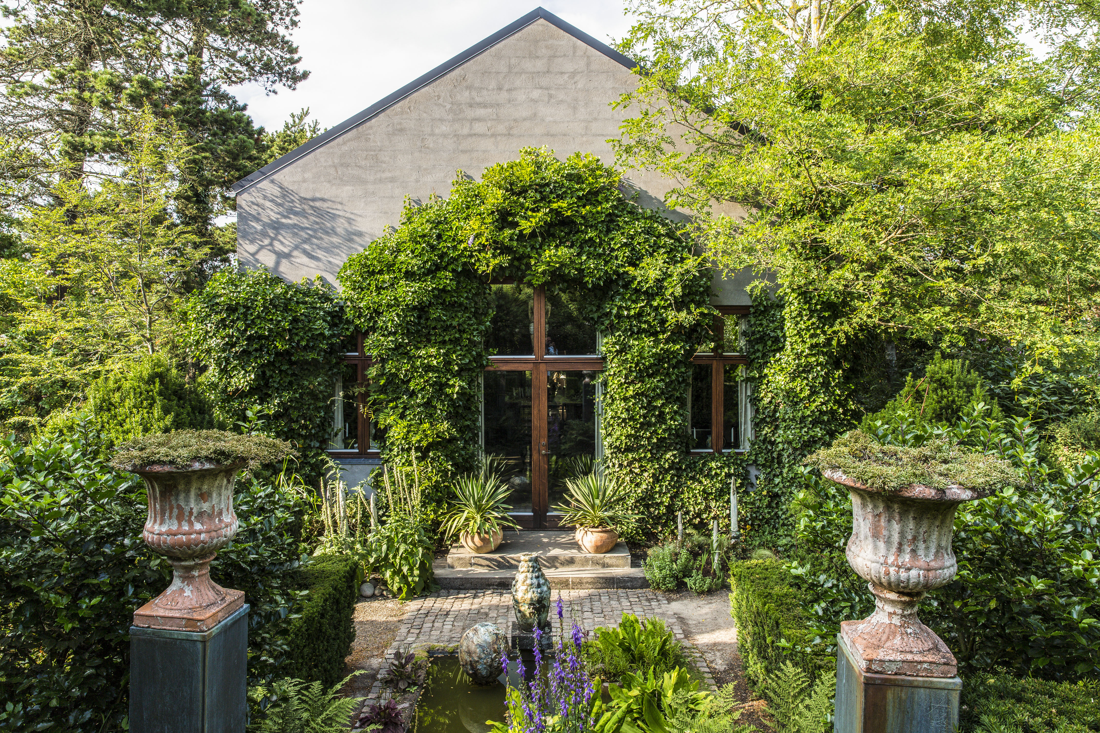 Anne Justs Have - Haven i Hune. Claus Bonderups own house.